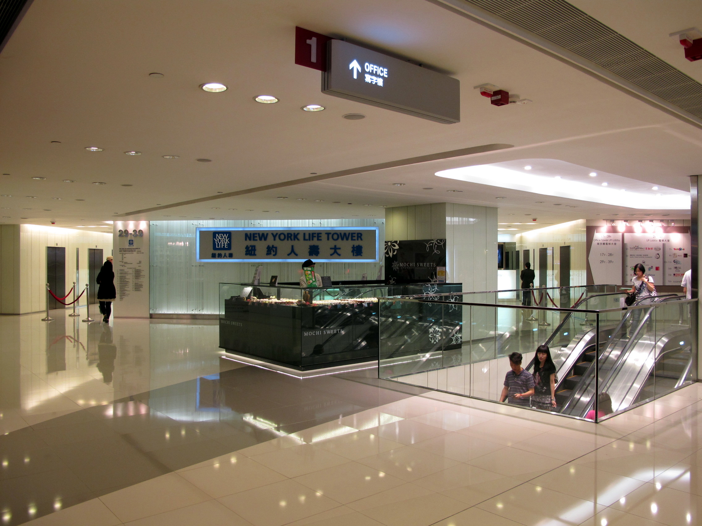 Windsor House Level 1 Office Lobby 皇室堡